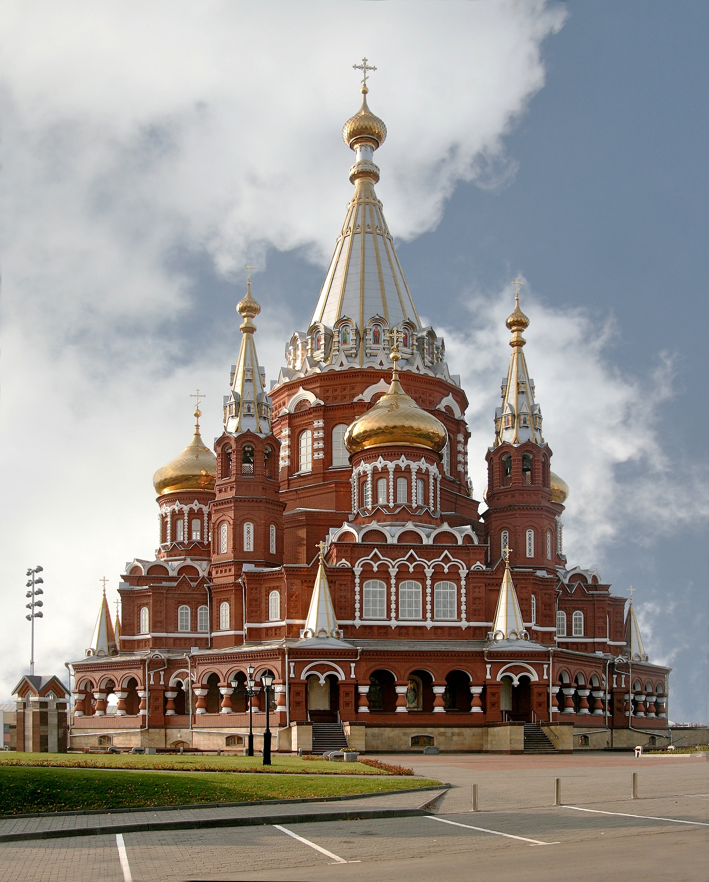 The Svyato Mikhailovsky Cathedral in Ischewsk, Republic of Udmurtia in Russia